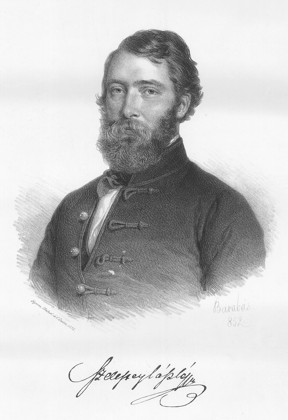 Szelestey László (Uraiújfalu, Vas megye, 1821. szeptember 14. – Budapest, 1875. szeptember 7.) lírikus és népies költő, ügyvéd, tanfelügyelő, királyi tanácsos, országgyűlési képviselő.